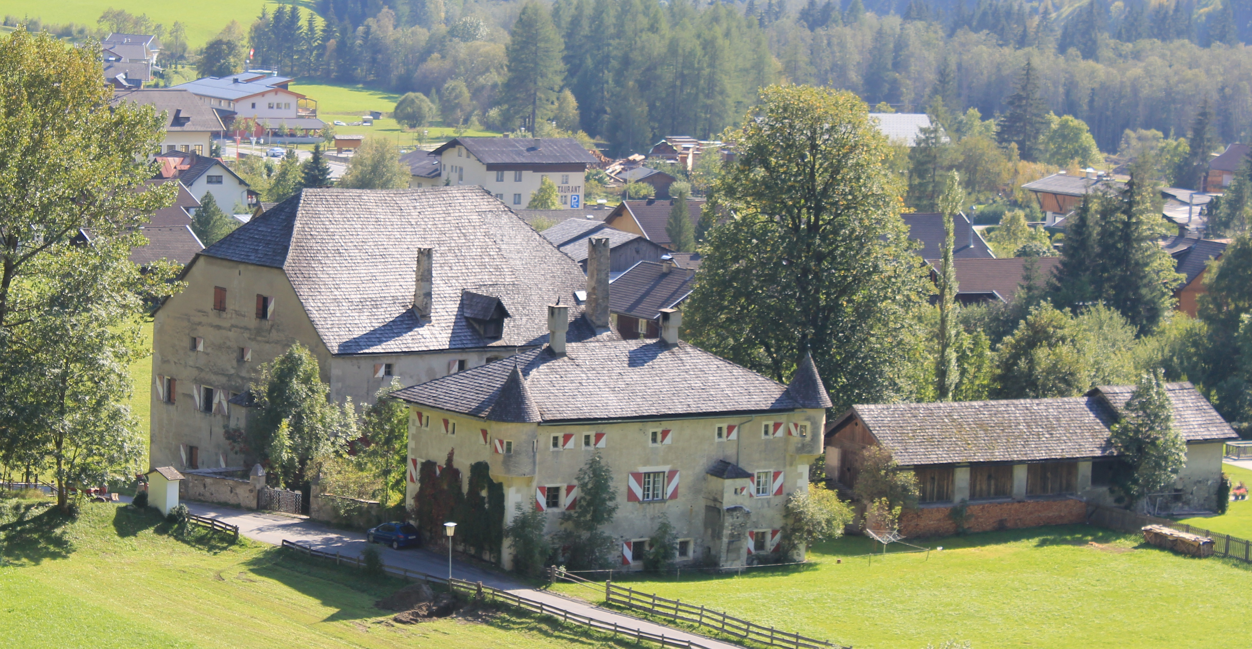 Castle in Großkirchheim